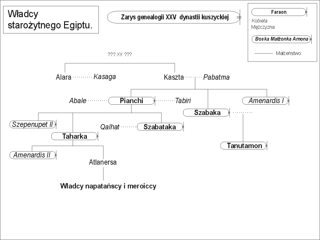 XXV dynasty of ancient Egypt.